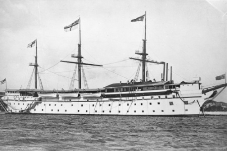 Training ship HMAS Tingira moored in Rose Bay, Sydney in 1912